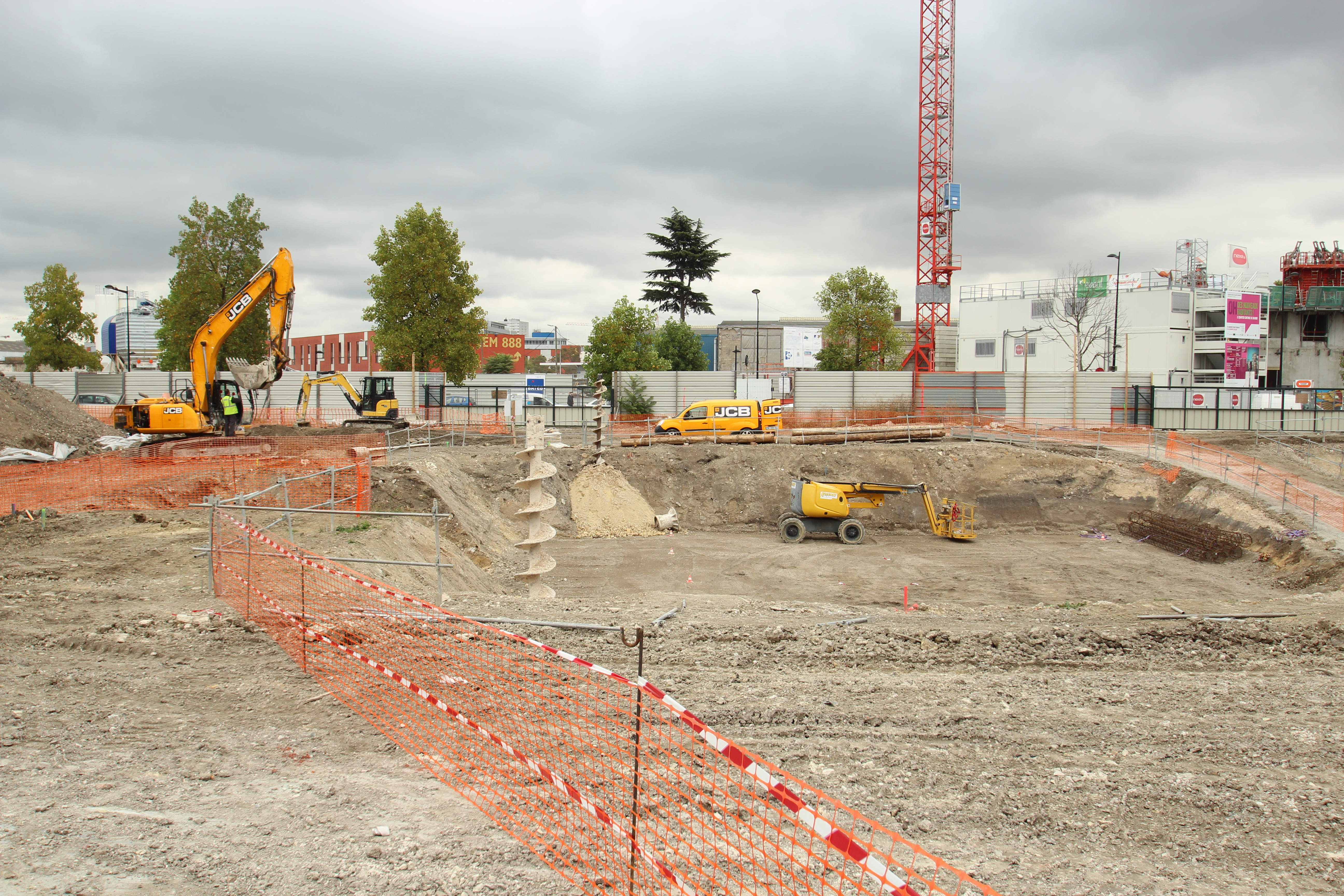 Construction site of the Campus Condorcet in Aubervilliers, France. Object location48° 54′ 27.72″ N, 2° 21′ 59.04″ E